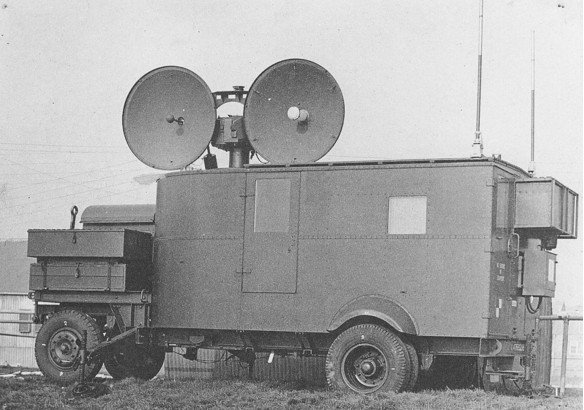 This image shows the GL Mk. III(B) radar, used to guide anti-aircraft guns. The separate transmitter and receiver antennas are on top, can can be rotated from within the cabin. The two whip antennas at the rear of the cabin are used for IFF interrogation. The wooden boxes at the front hold tools and stores, and the rounded metal box behind them is a generator. The right-hand dish, the receiver, has six small bumps visible around the rim. These would normally have thin rope running from them to similar connection points on the white disk. Fabric would then be stretched over the front of the dish to protect the antennas behind the white disk from the elements. A similar cover was normally placed on the transmit dish as well, but didn't need the ropes because the antenna didn't spin and the fabric was simply stretched right over the antenna post.